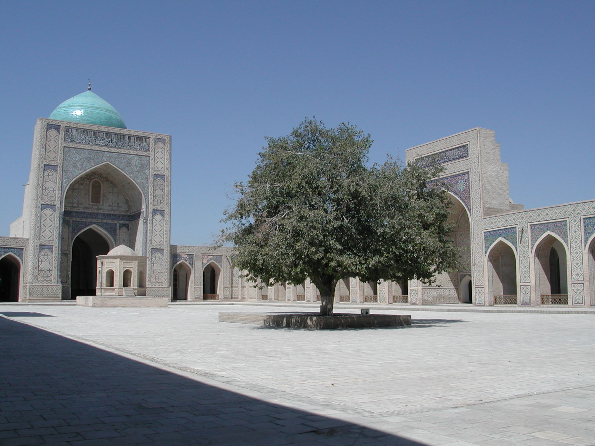 Bukhara (Uzbekistan) : Mosque Po-i-Kalân